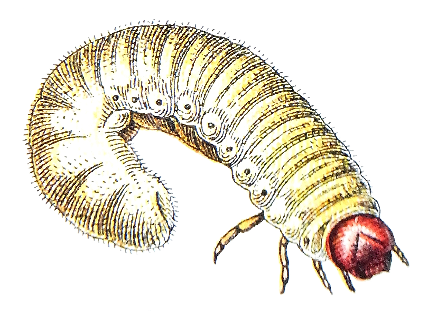 Larva of Gnorimus nobilis from E. Reitter, Fauna Germanica Bd.II 1909